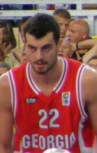 Nikoloz Tskitishvili, basketball player from Georgia